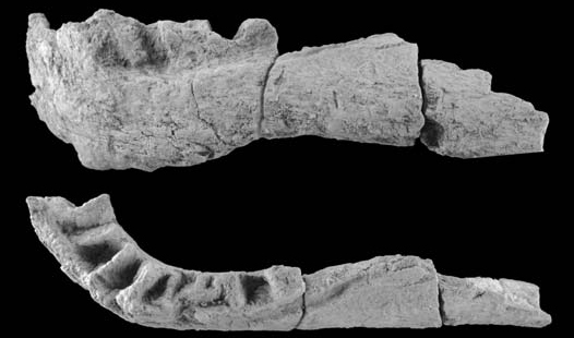 Left dentary of rebbachisaurid sauropod Demandasaurus darwini gen. et sp. nov. from Late Barremian–Early Aptian, Early Cretaceous of Tenadas de los Vallejos II, Spain, MDS−RVII,443, in lateral (A) and dorsal (B) views. The arrow indicates a depressed area in a dorsolateral position.